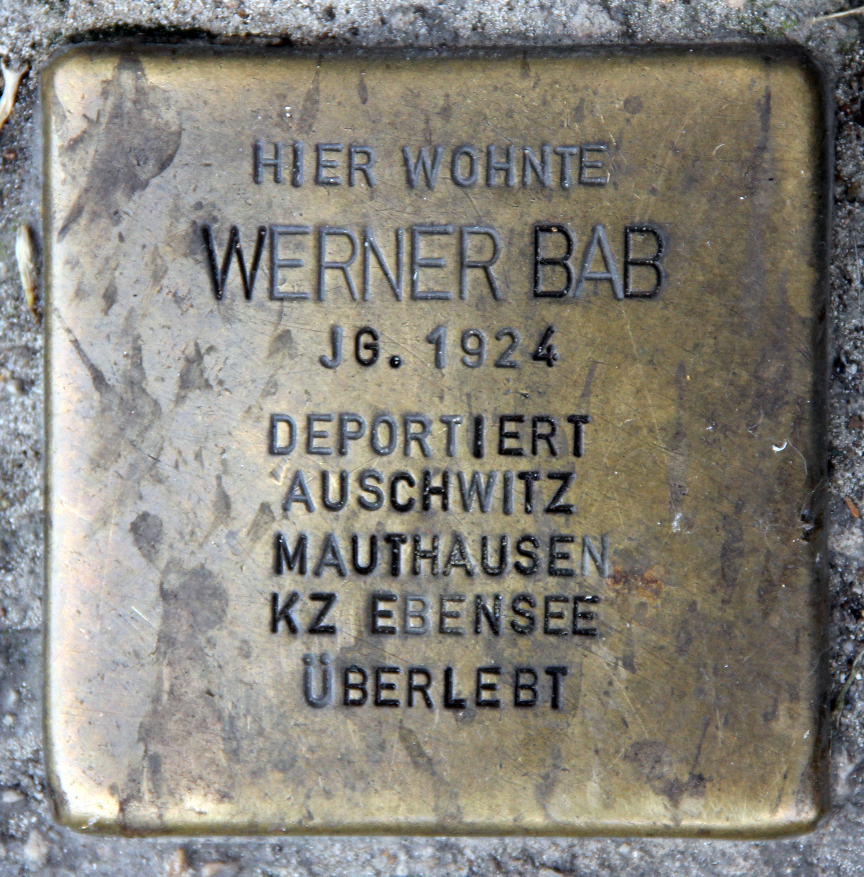 "Stolperstein" (stumbling block), Werner Bab, Schönhauser Allee 187, Berlin-Prenzlauer Berg, Germany